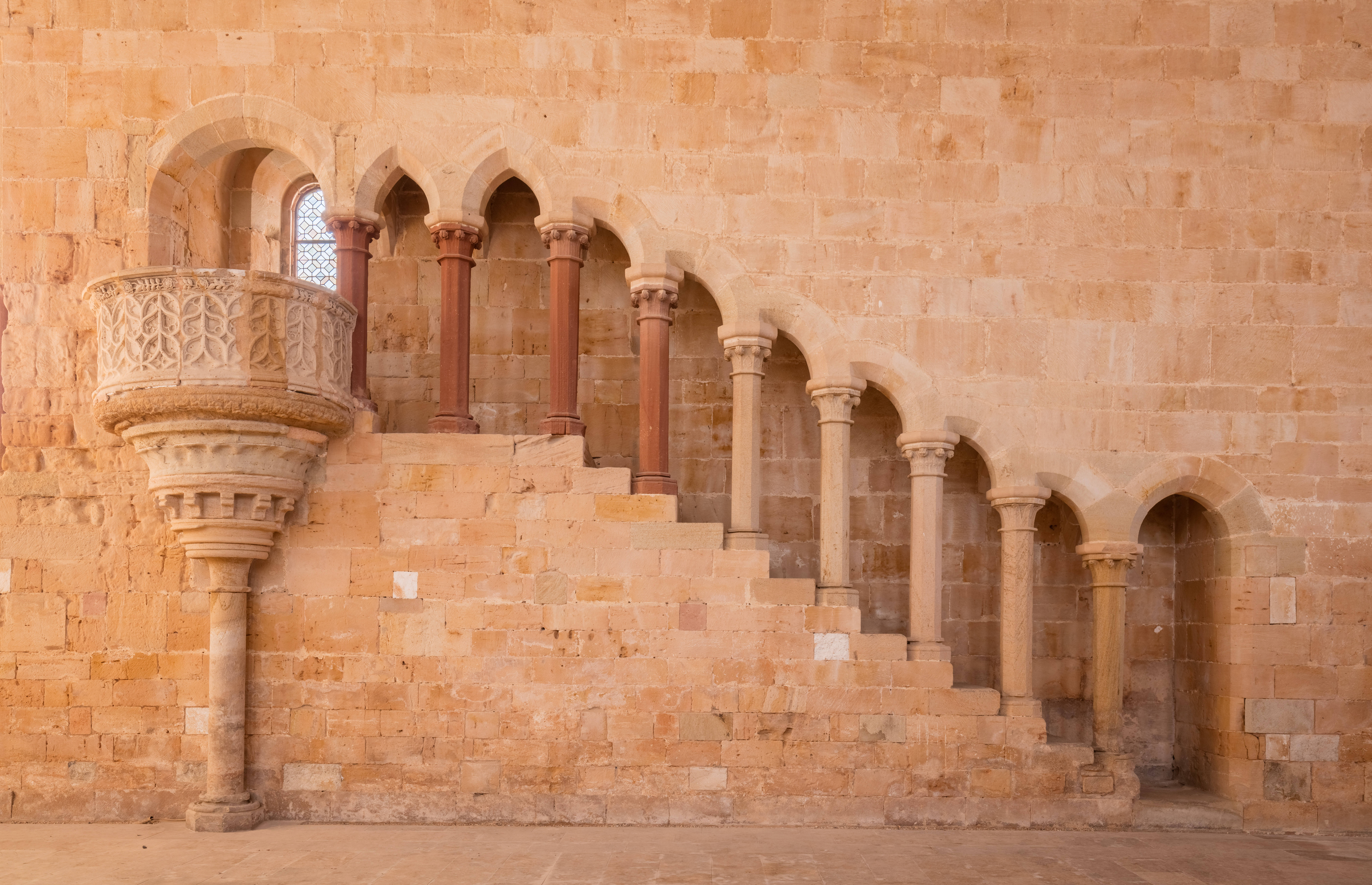 Steps and pulpit of the refectory (dining room) of the Cistercian Monastery of Santa María de Huerta located in the village of Santa María de Huerta, province of Soria, Castille and León, Spain. The first stone of the building was laid by the king Alfonso VII of Castile in 1179 and the building underwent an expansion in the 16th century thank to the help of the kings Charles I and Philip II. The refectory, built in 1215, is the jewel of the monastery and one of the best examples in Europe. The pulpit was used by a monk for reading during dinner time.